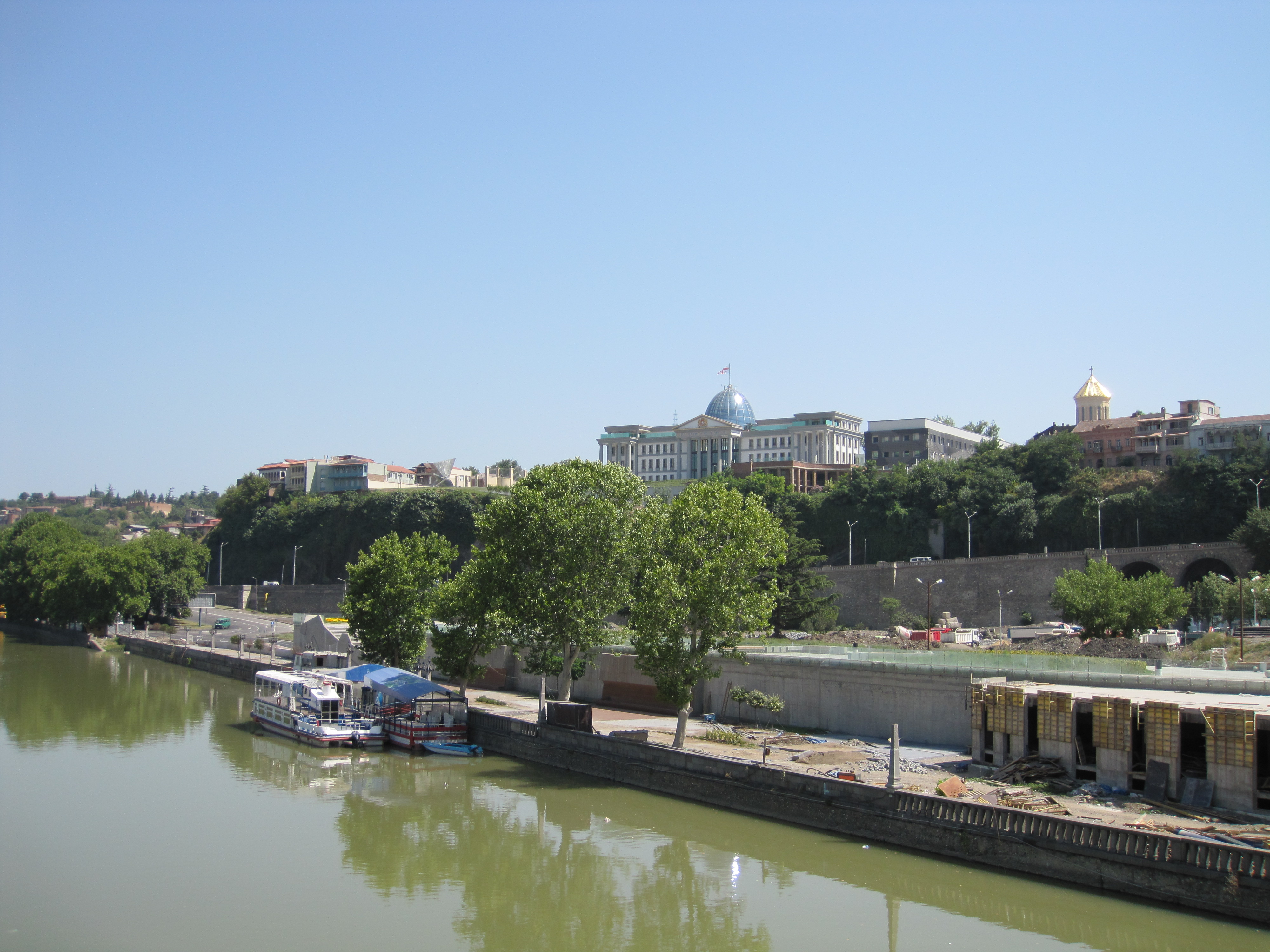 The Rike area under reconstruction. The President's Palace and Sameba Cathedral seen in the background